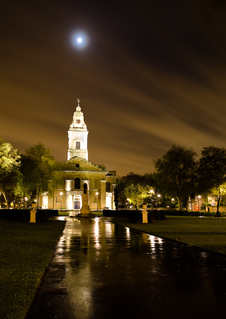 stjohnathackney